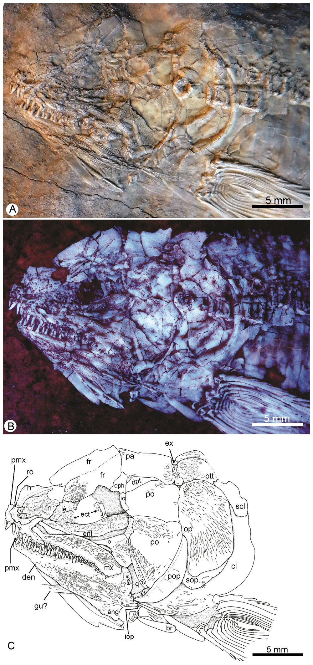 Cipactlichthys scutatus IGM.6606. A) photograph of the head region; B); photograph of the head region under UV light; C) anatomical interpretations. Abbreviations: ang, angular; br, branchiostegals; cl, cleithrum; den, dentary; dph, dermosphenotic; dpt, dermopterotic; ect, ectopterygoid; ent, endopterygoid; ex, extrascapular; fr, frontal; gu, gular plate; io, infraorbital; le, lateral ethmoid; mx, maxilla; n, nasal; op, opercle; pa, parietal; pmx, premaxilla; po, postorbital; pop, preopercle; psp, parasphenoid; ptt, posttemporal; q, quadrate; ro, rostral; sag, supraangular; scl, supracleithrum; sop, subopercle; sy, sympletic. Scale bar equals 5 mm.